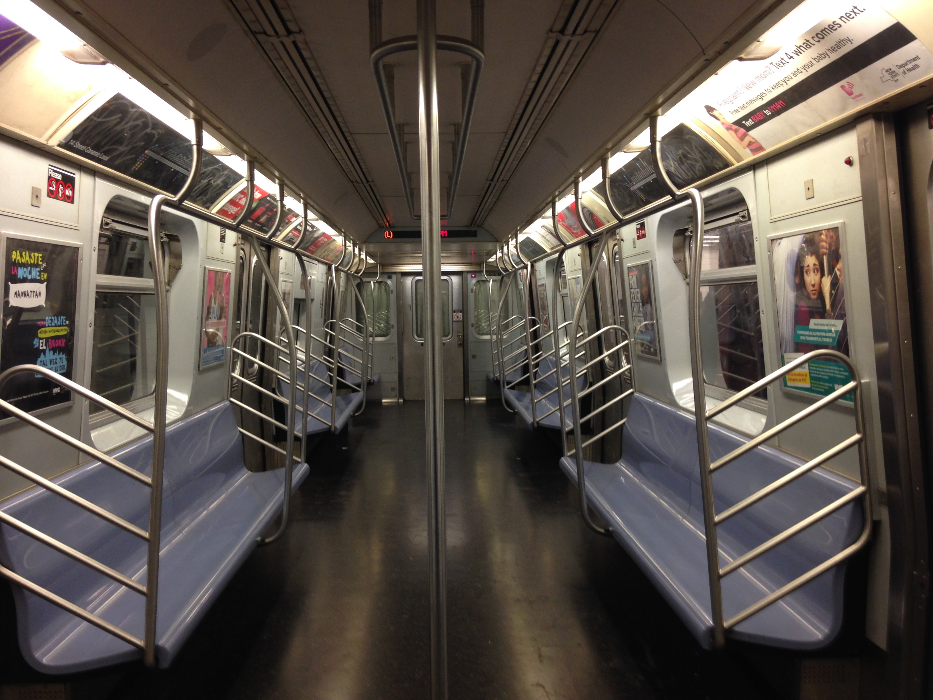 The interior of NYC Subway R143 car #8283 on the L train.